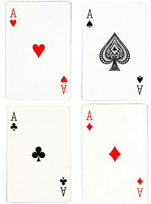 Four aces form a English-Amercian deck.